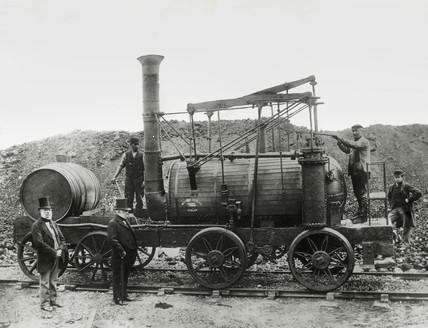 Steam locomotive Wylam Dilly shortly before it's sister engine Puffing Billy was handed over to the London Museum of Patents in 1862. Other sources give the year 1883, when Wylam Dilly itself was given to the Royal Museum in Edinburgh.